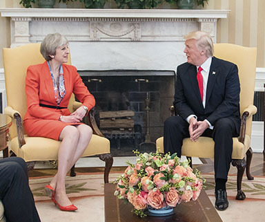 President Donald Trump talks with British Prime Minister Theresa May during a bilateral meeting in the Oval Office, Friday, January 27, 2017. Prime Minister May was the first Head of State to officially visit the White House. (Official White House Photo by Shealah Craighead)